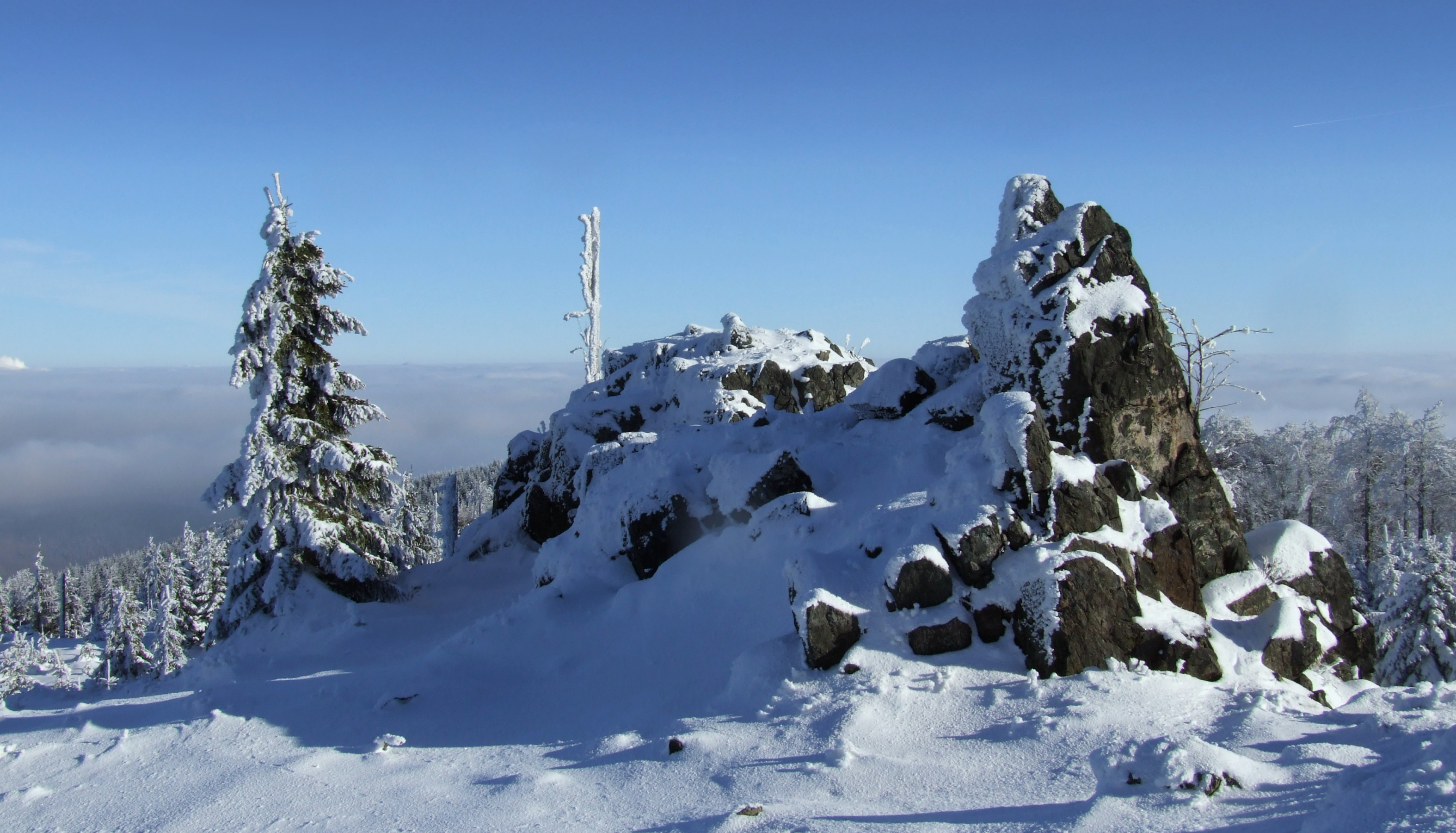 Ore Mountains: Summit rock on the mountain Křížová hora